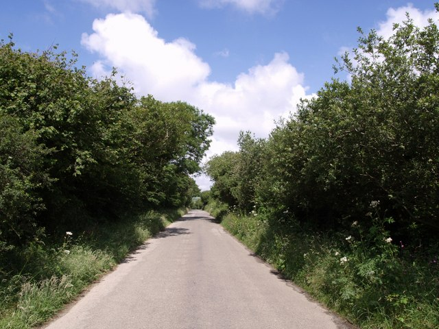 Lane to White Cross A straight stretch of lane bordered by trees, leading away from a lane junction near Tregonning.